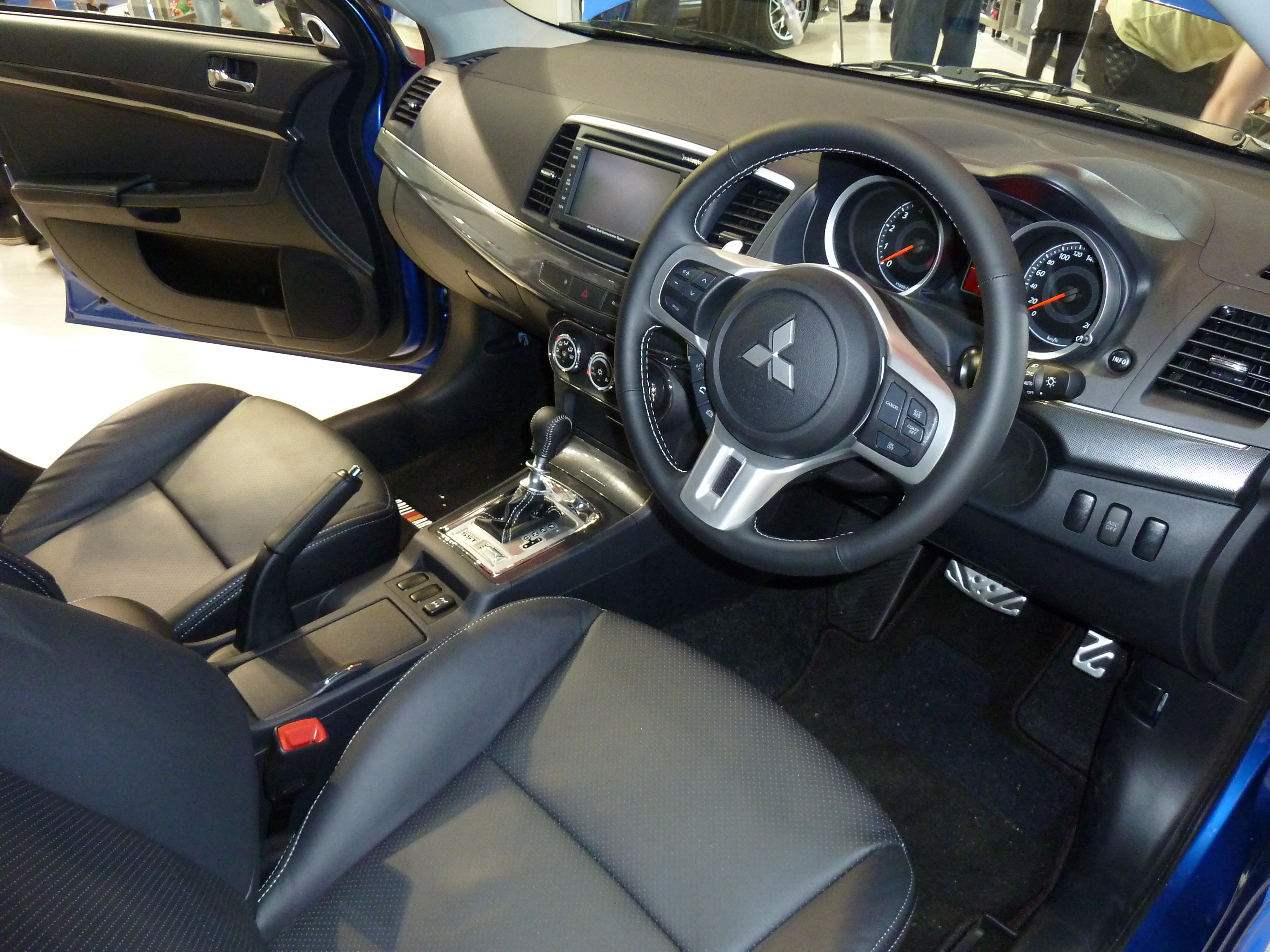 2010 Mitsubishi Lancer (CJ MY11) Ralliart Sportback hatchback. Photographed at the 2010 Australian International Motor Show, Sydney, New South Wales, Australia.